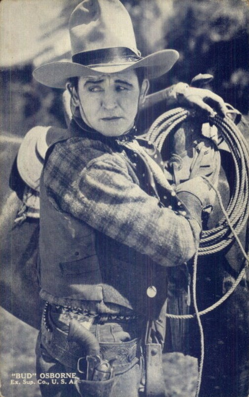 american actor Bud Osborne - publicity still (exibit Arcade Card, cropped)